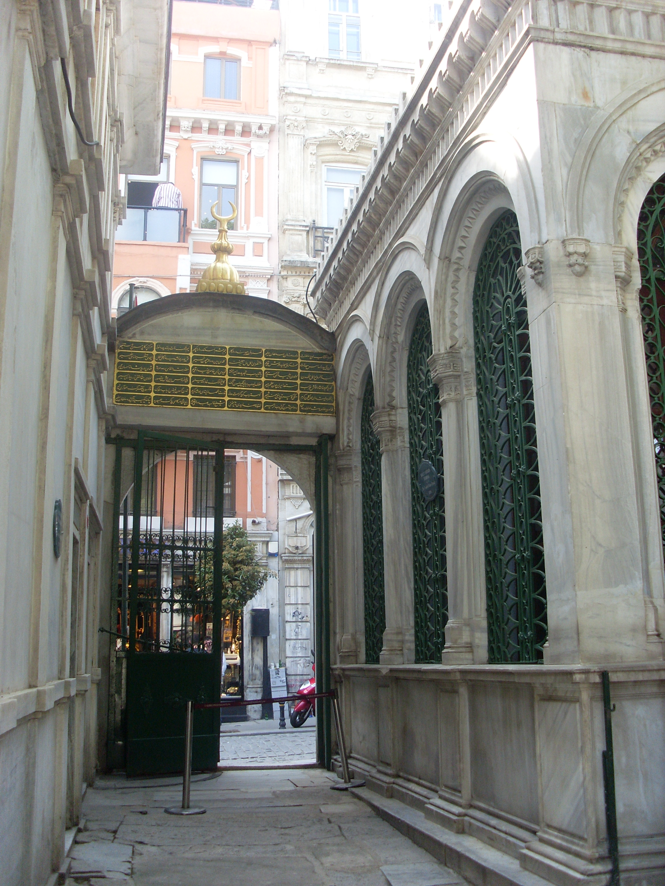 Galata Mevlevihanesi Müzesi 9